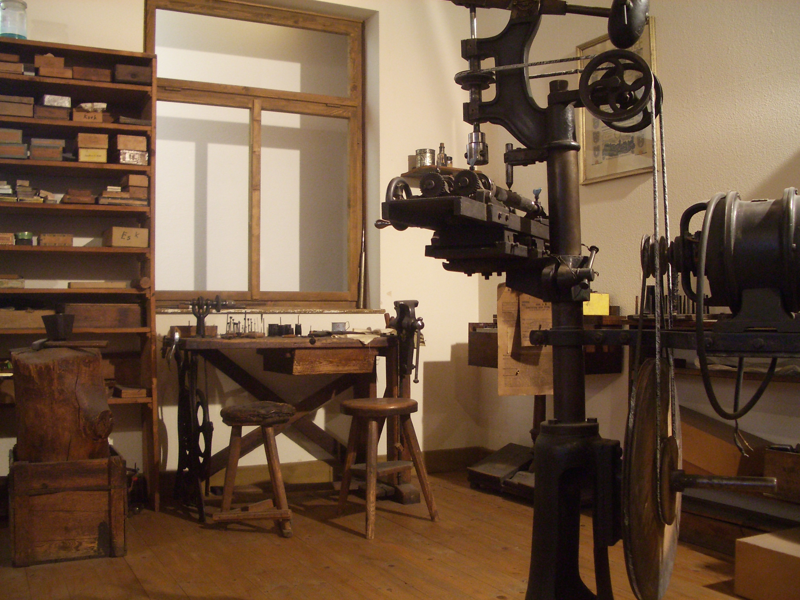 Historical workshop of a musical instrument maker in the Germanisches Nationalmuseum, Nürnberg, Germany.